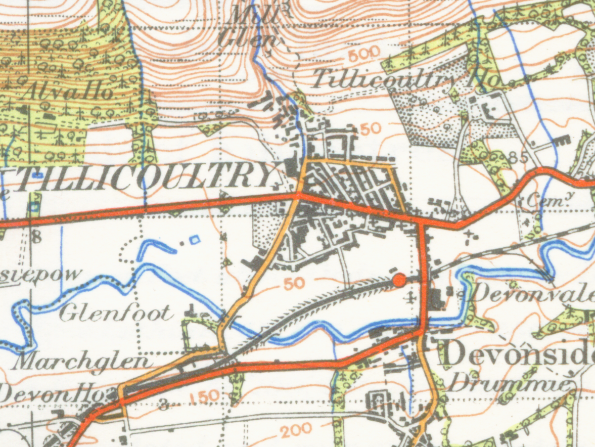 map of Tillicoultry 1 inch to the mile scale scanned at 600 DPI